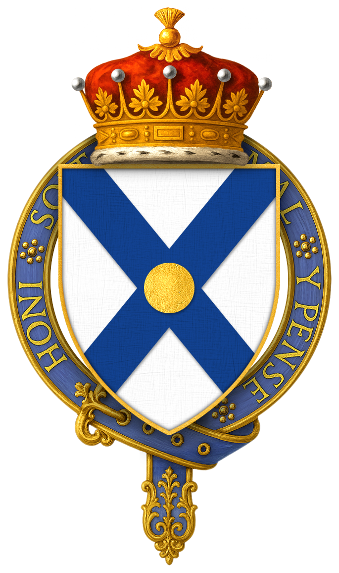 Shield of arms of Philip Yorke, 3rd Earl of Hardwicke, KG, PC, FRS